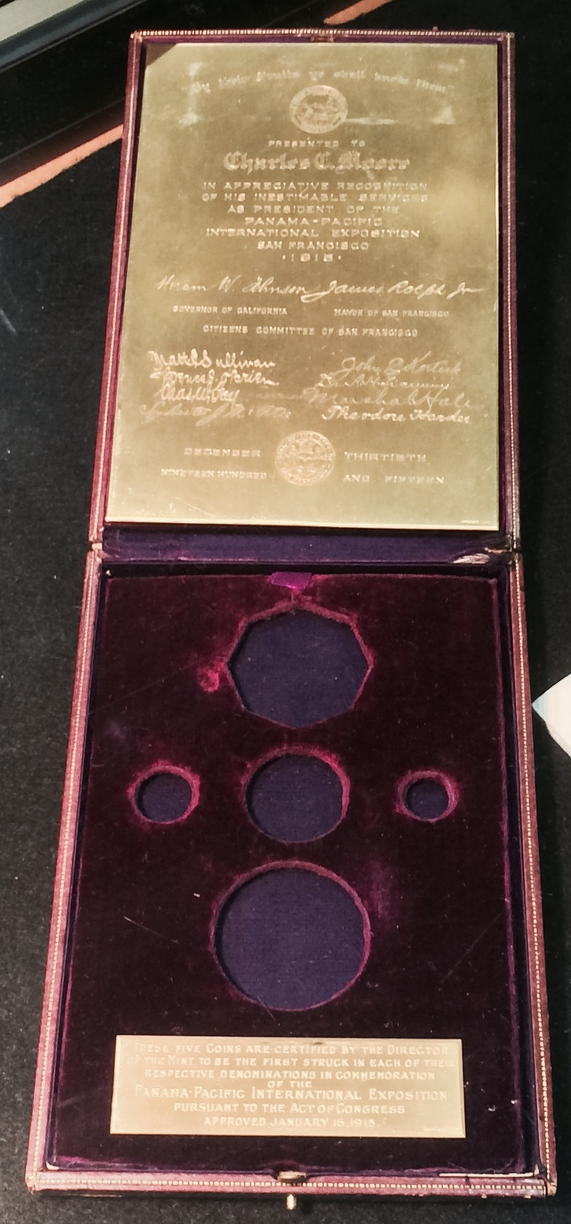 Case for Panama-Pacific commemorative issue